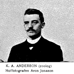 Karl Andreas Andersson, 1875-1968, Swedish zoologist and polar explorer